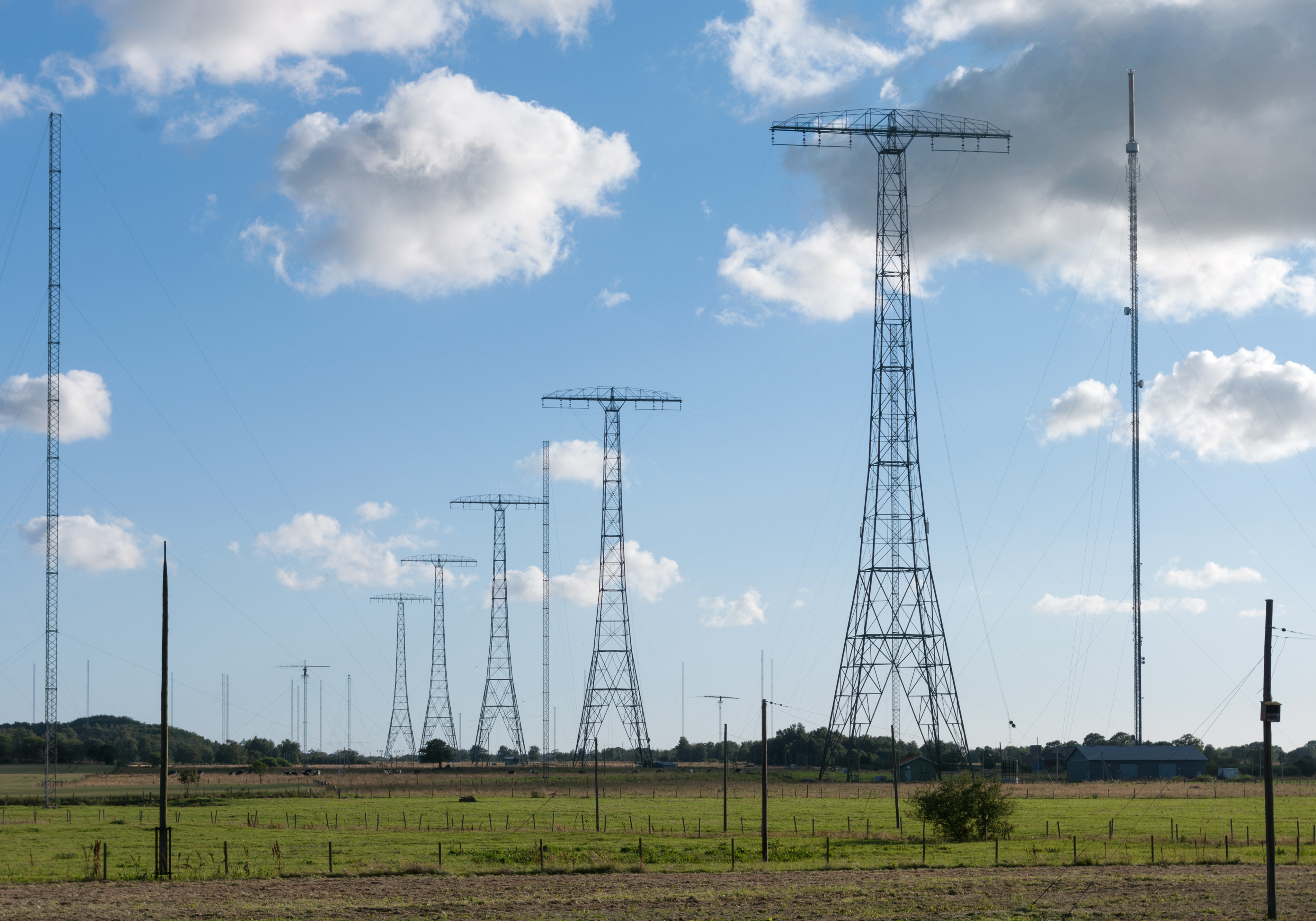 Mast row of the VLF Varberg Radio Station